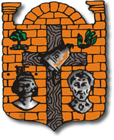 Shield of the Encarnación City